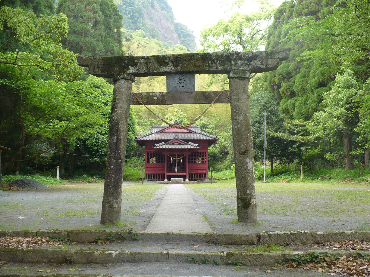 Iwatsurugi shrine front view, Aira town Kagoshima prefecture, Japan